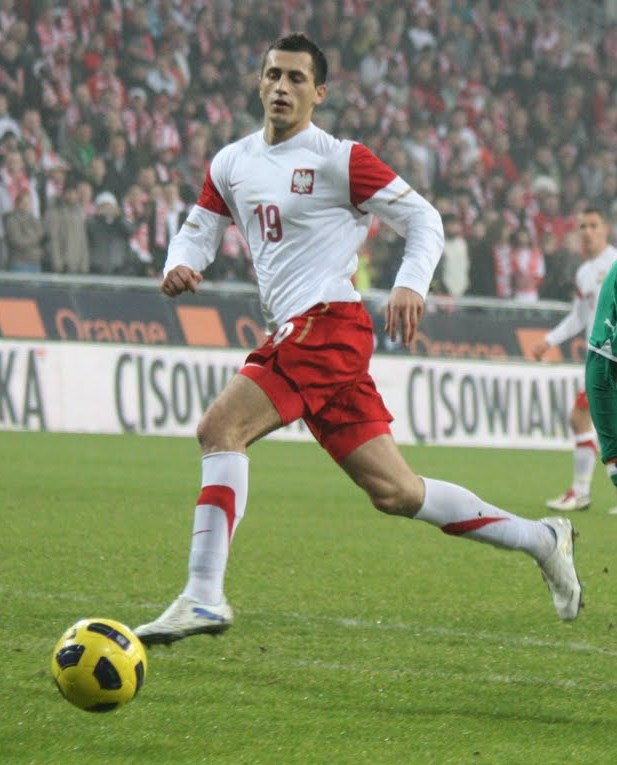 Polish football player Tomasz Jodłowiec